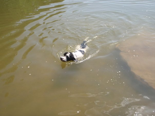 Portuguese Water Dog Swimming in River